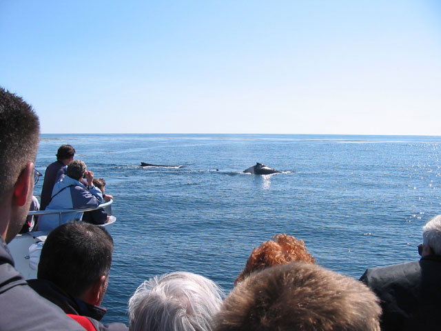 Tourists and locals enjoy whale watching off the coast of Bar Harbor, Maine. This photo taken from the Friendship V catamaran belonging to the Bar Harbor Whale Watch Company.